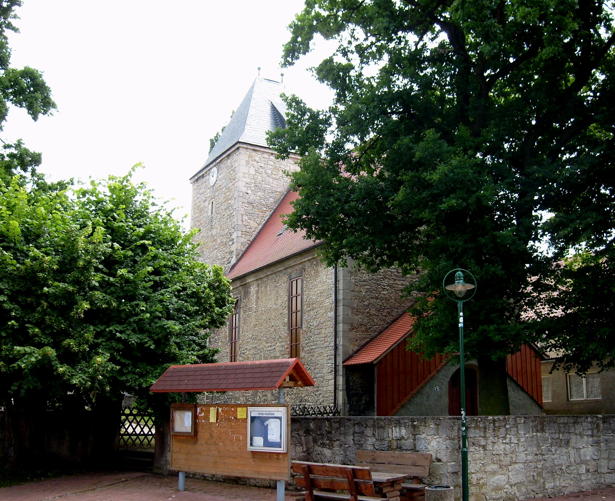 Church in Hassenhausen (Naumburg/Saale, district of Burgenlandkreis, Saxony-Anhalt)